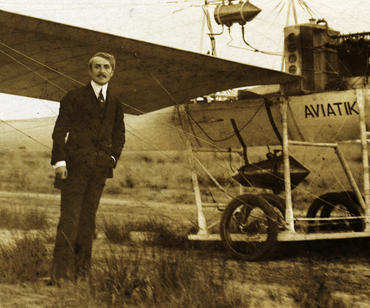 Emile "Mimi" Jeannin, always elegant, at Johannistal, 1911